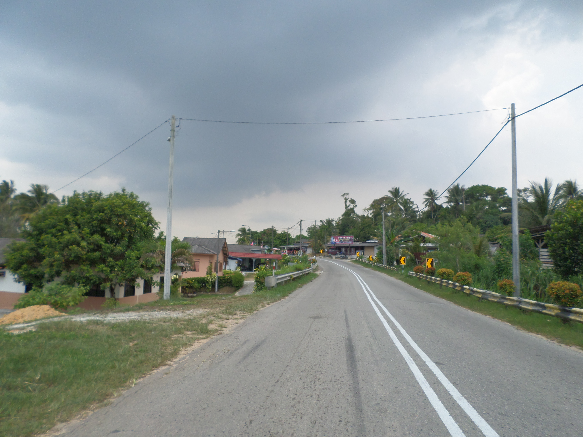 FELDA Ulu Tebrau, Ulu Tiram, Johor Bahru, Johor, Malaysia